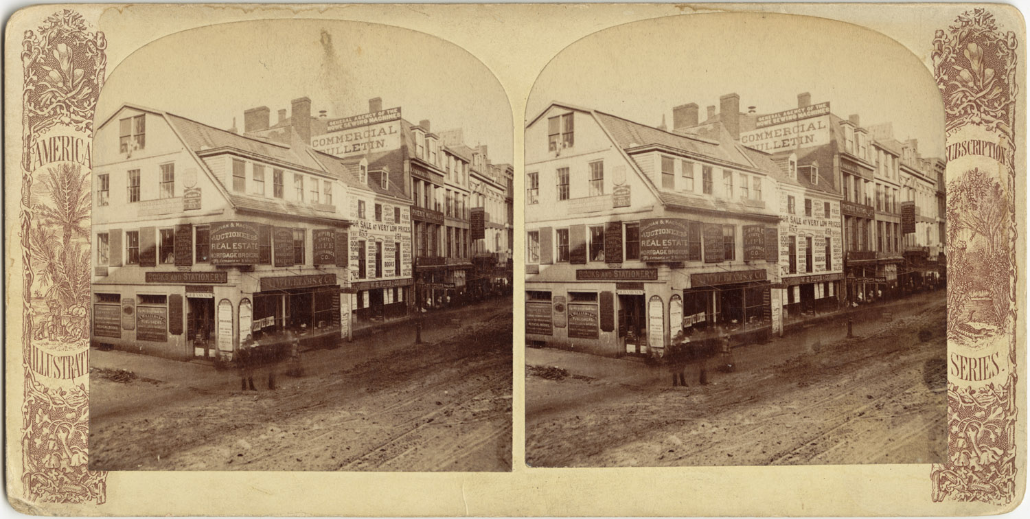 Accession No.: 06_11_000582 Title: Corner School & Washington St. Series: America Illustrated. Subscription Series Local Subject: Street Views Subject: Boston (Mass.) Format: Sterographs BPL Department: Print Corner School & Washington St.